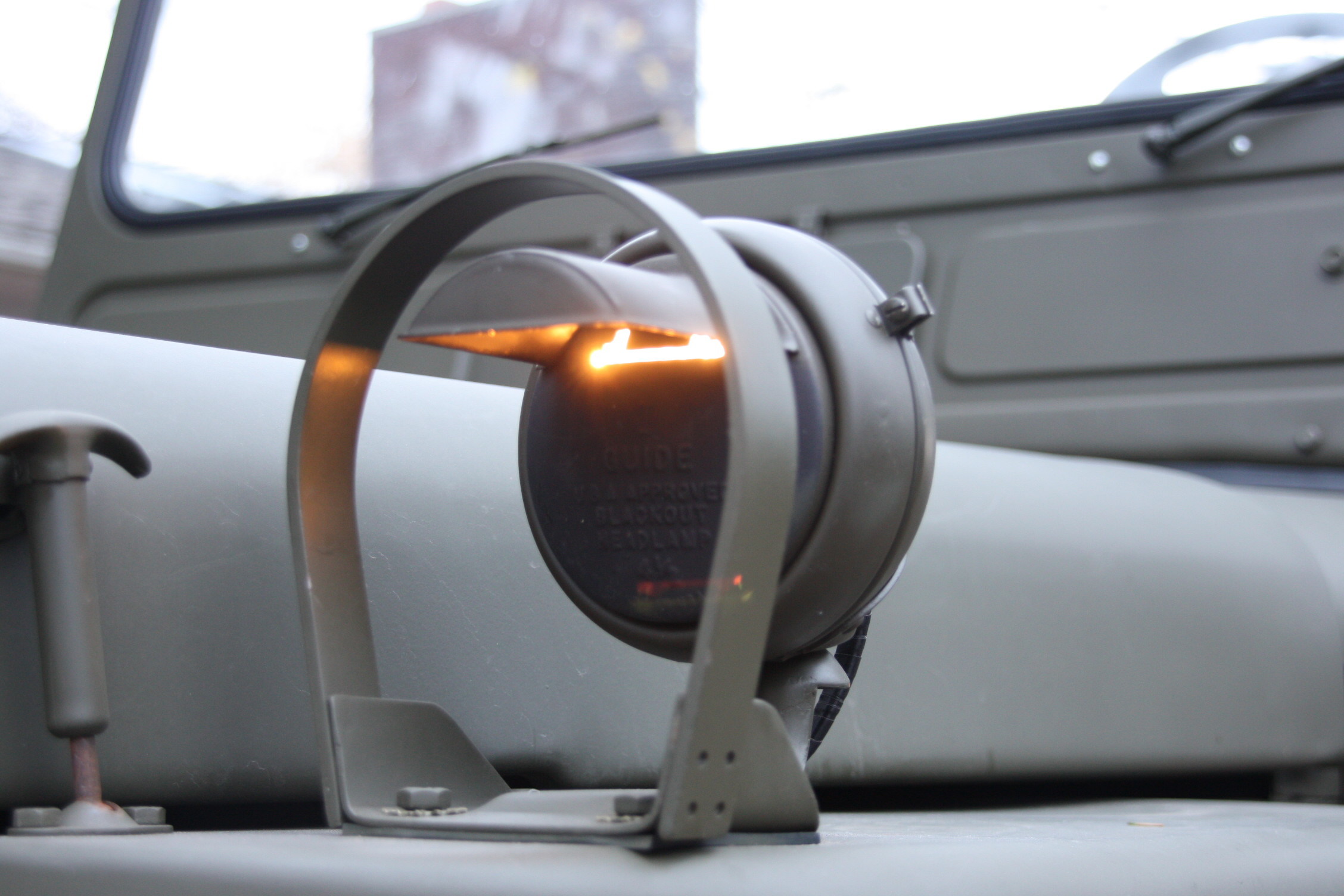 M38_Blackout_Driving_Light